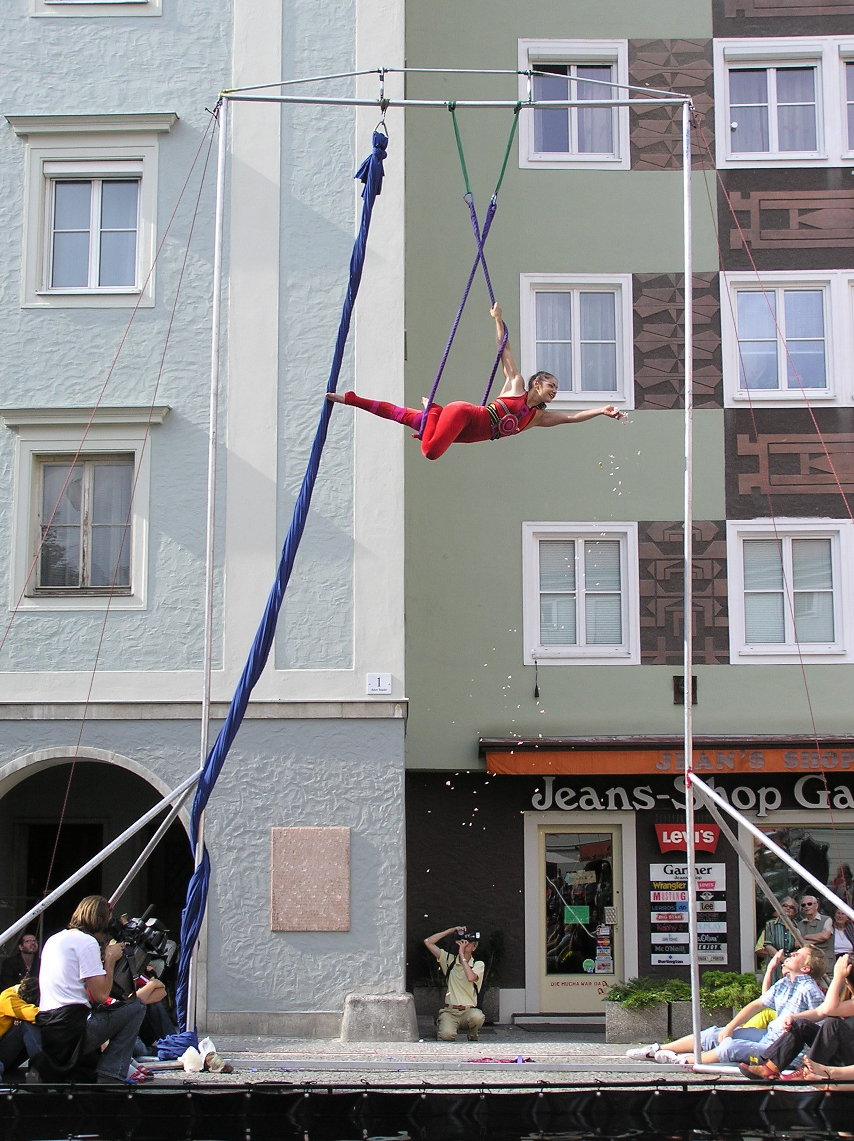 Theaker von Ziarno, trapeze artist from Fremantle, Australia at the Pflasterspektakel in Linz, Austria, 22 July 2005